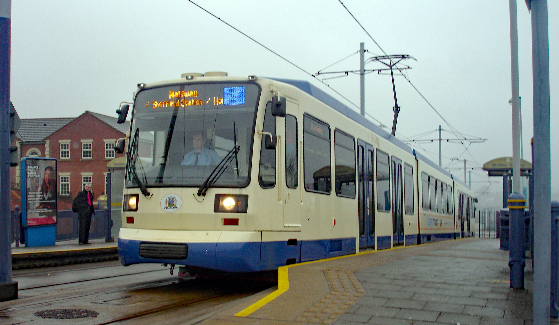 Cream Tram 120. Sheffield Supertam.